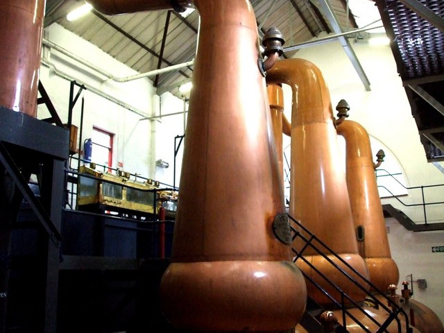 Stills, Tobermory Distillery Tobermory single malt whisky is twice distilled. There are four of these copper stills, three of which can be seen here. The initial distillation occurs in the outer two stills, with the centre stills being used for the more crucial secondary distillation.